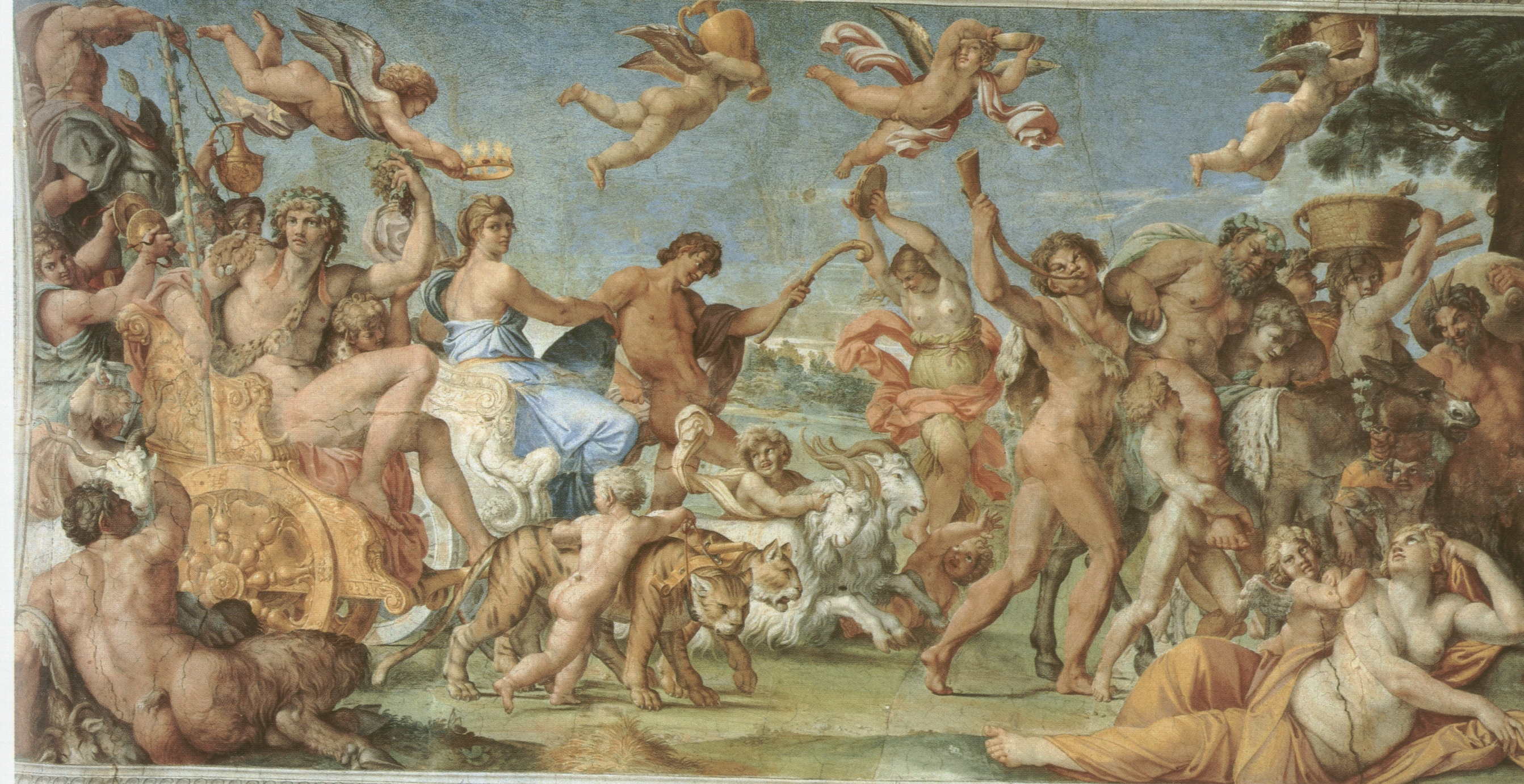 part of the ceiling fresco cycle The Loves of the Gods in the Farnese Gallery of the Palazzo Farnese in Rome